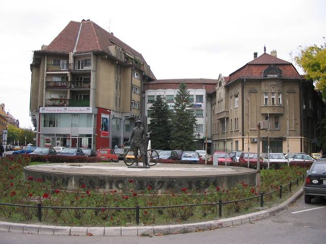 Subotica